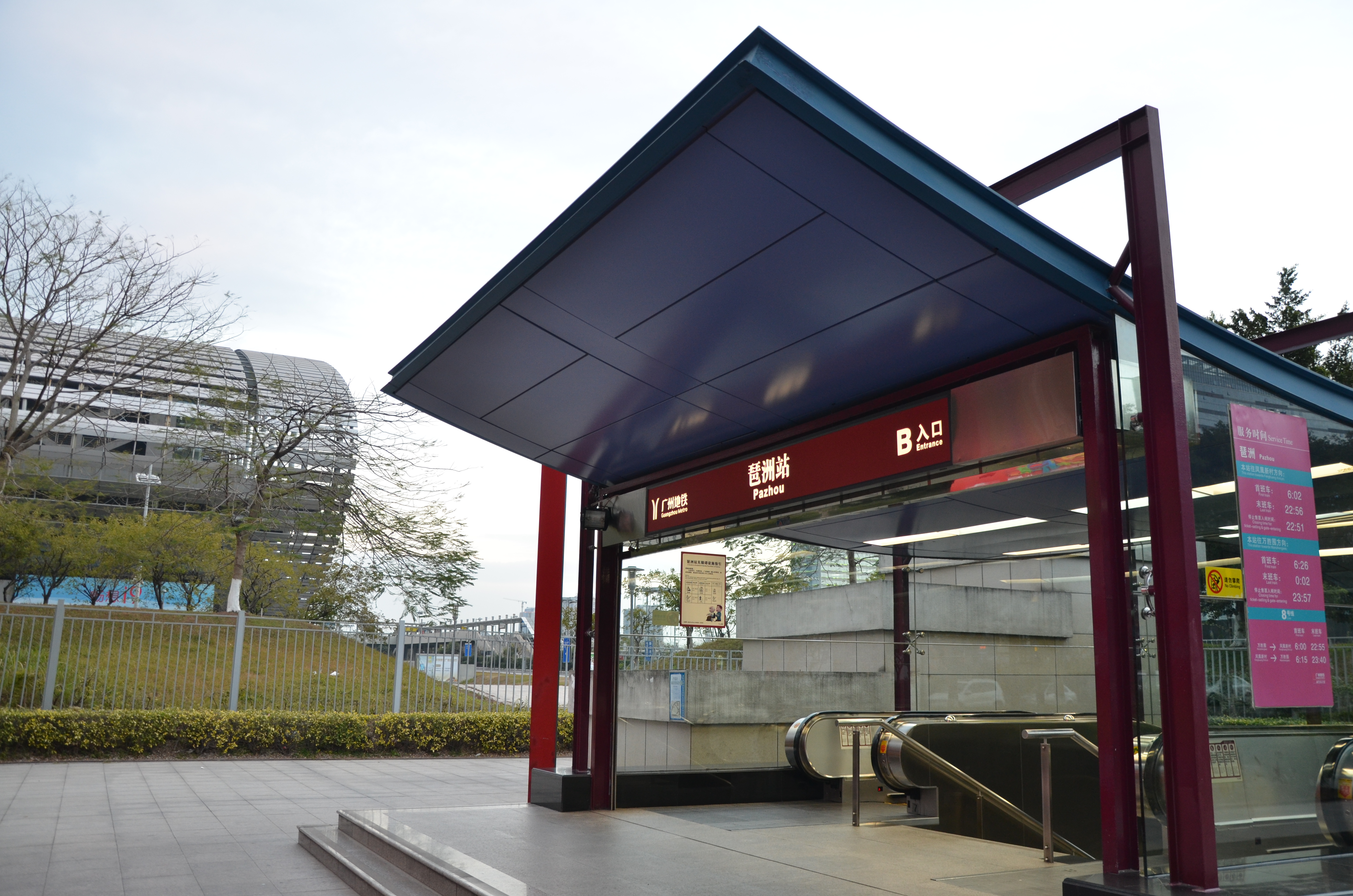 The Enterance B of Pazhou Station, Guangzhou Metro